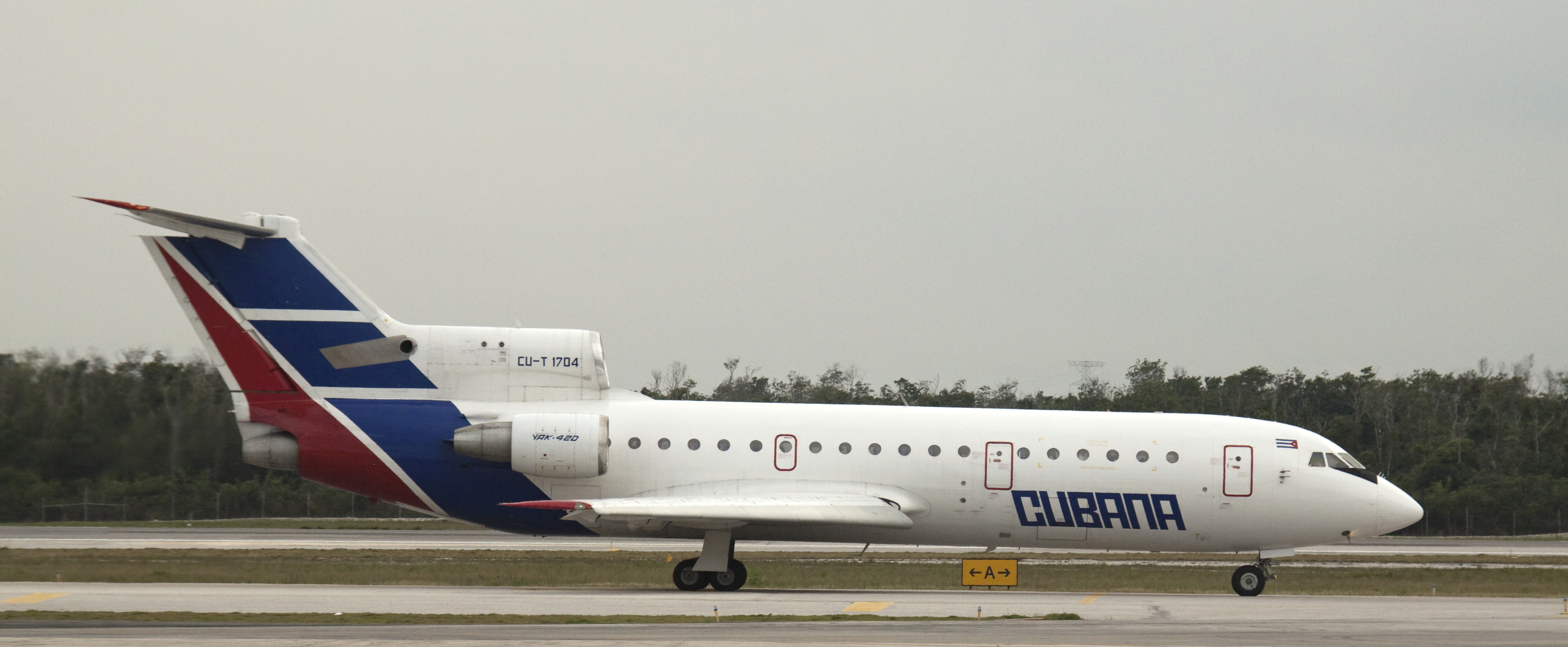 Seen at Cancun airport while waiting for our flight home